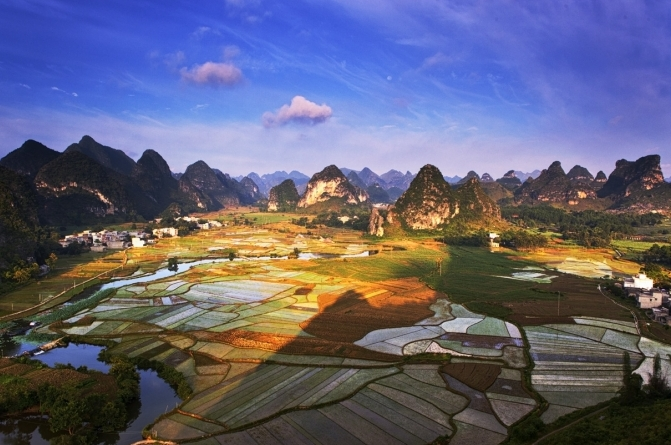 Du Kang pastoral scenery in Tiandeng County